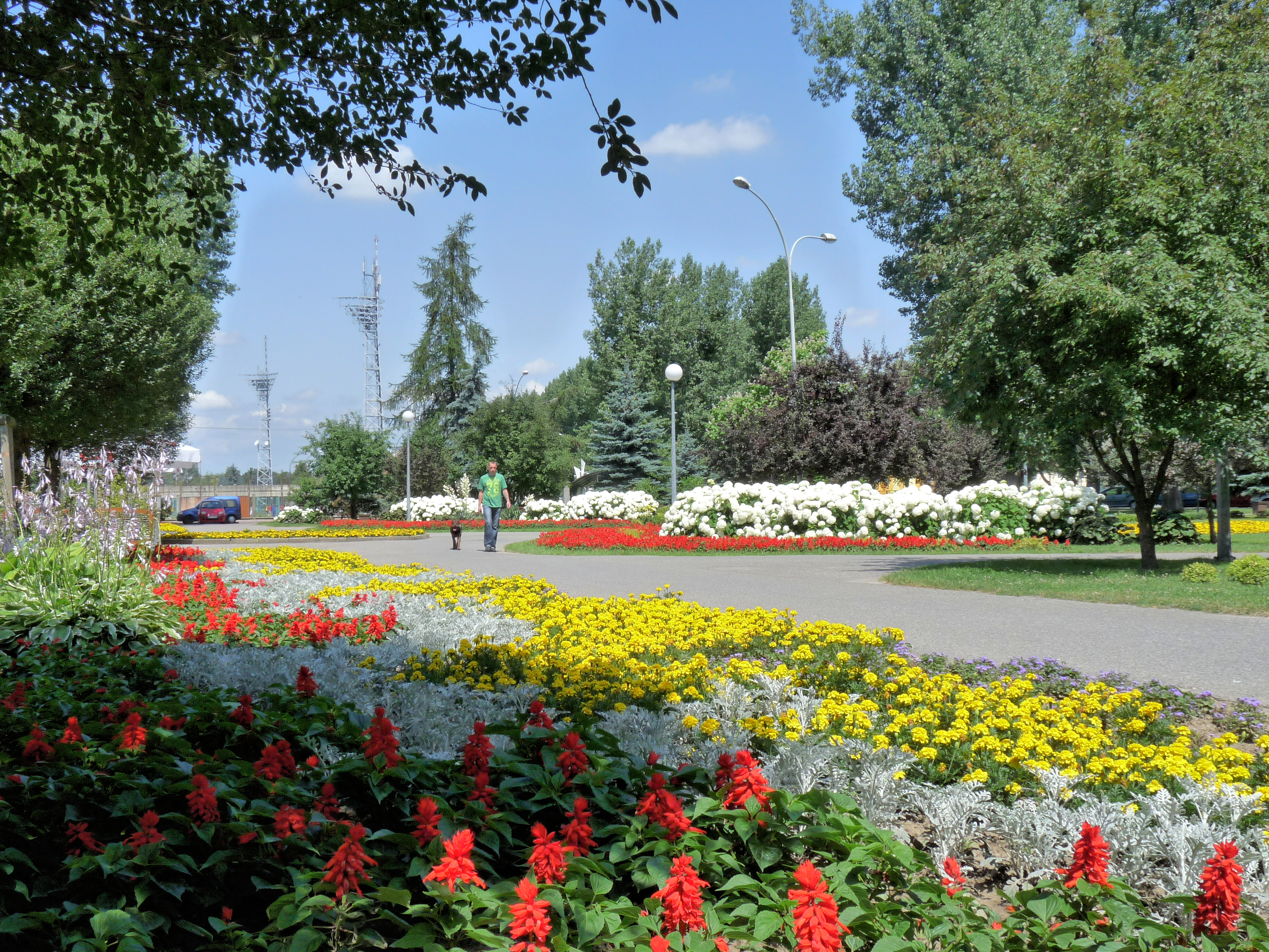 park behind Municipal Public Library in Mielec, Poland